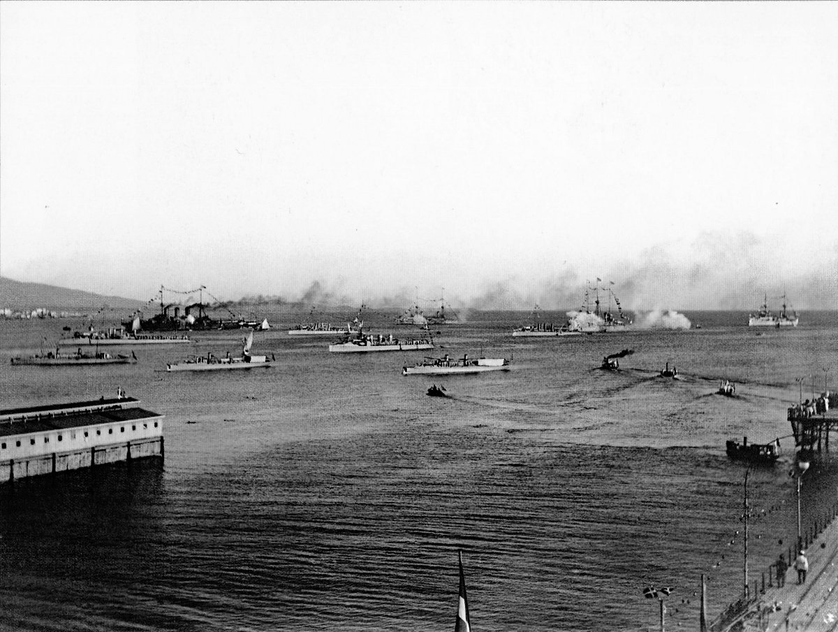 The Greek fleet at Phaleron Bay on 5/18 October 1912, ready to sail for the Balkan Wars.